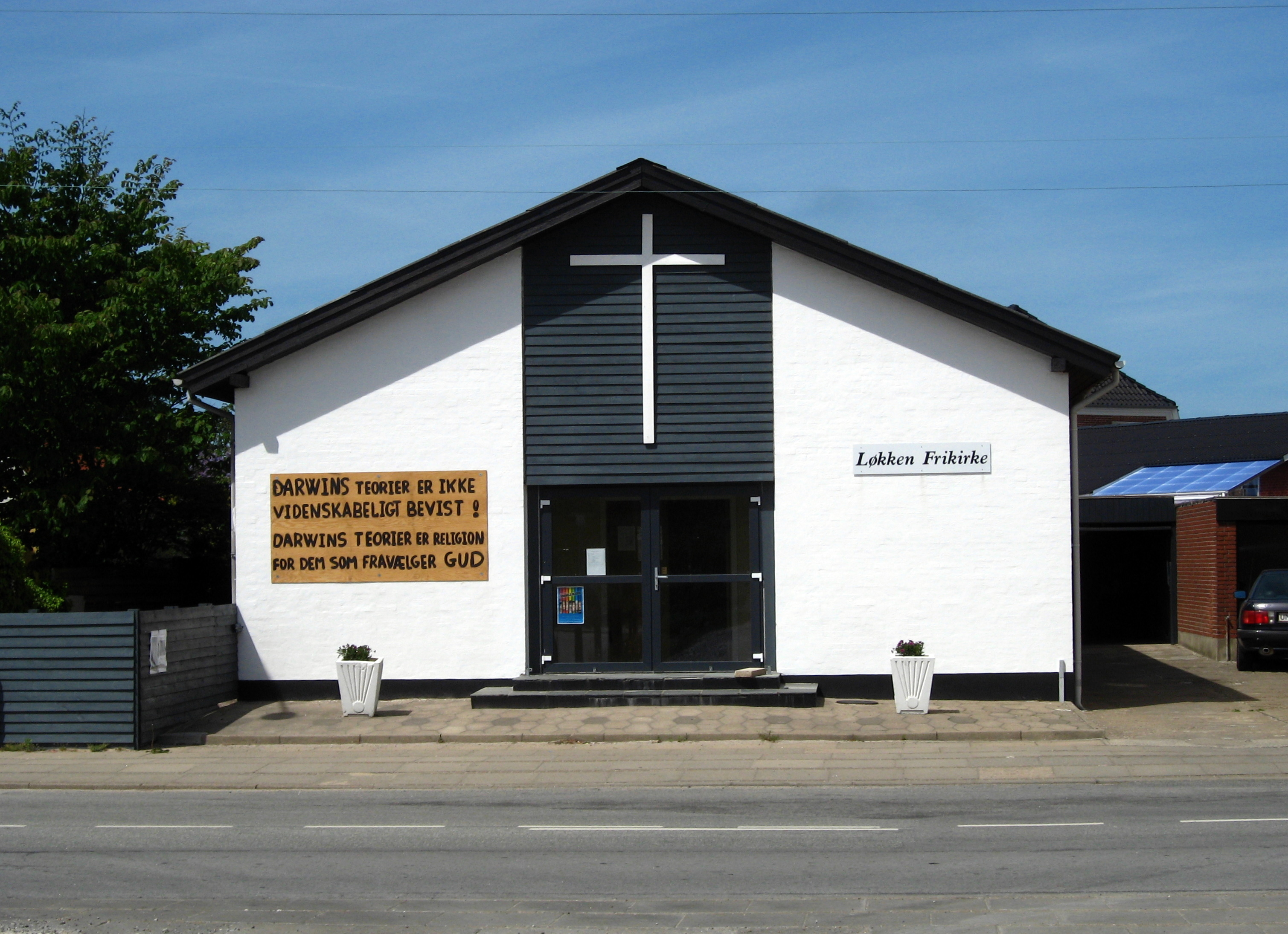 Free church in Løkken, Denmark. The text says: Darwin's theories have not been scientifically proved. Darwin's theories are religion to those who reject GOD